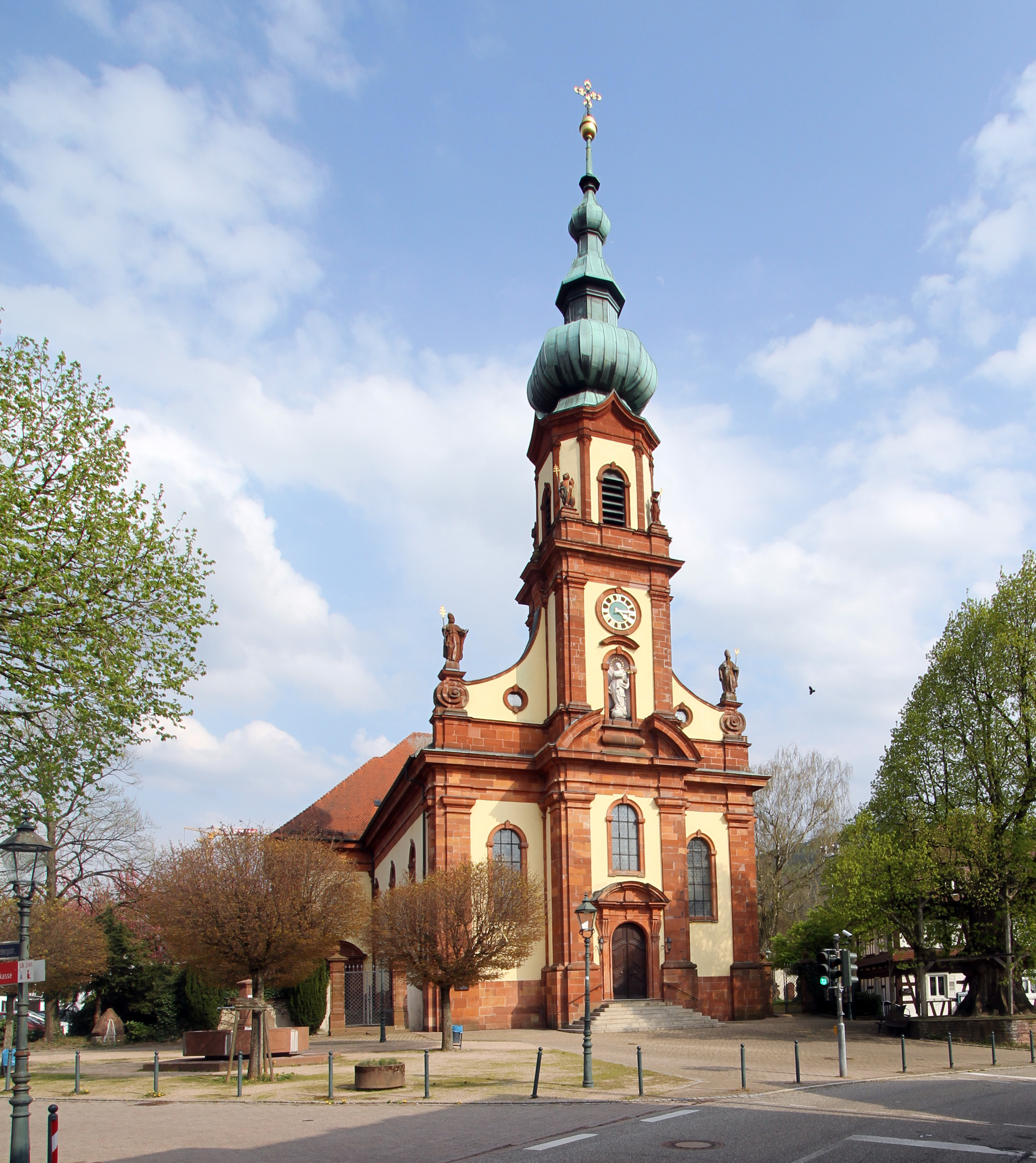 Church of St. Maria in Bühl-Kappelwindeck.